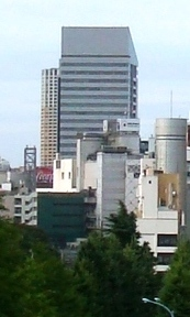 The Shibuya Infoss Tower, Shibuya, Tokyo